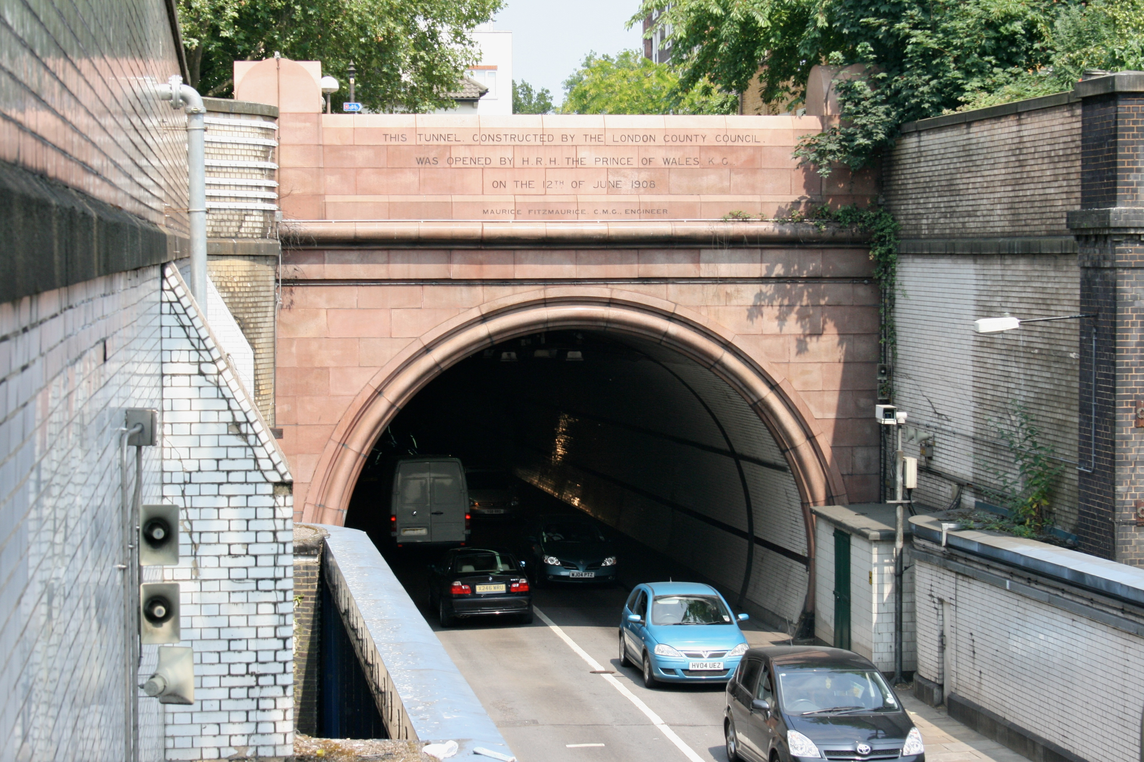 Entrance to the Rotherhithe Tunnel, London, United Kingdom.